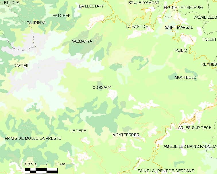 Map of French municipality